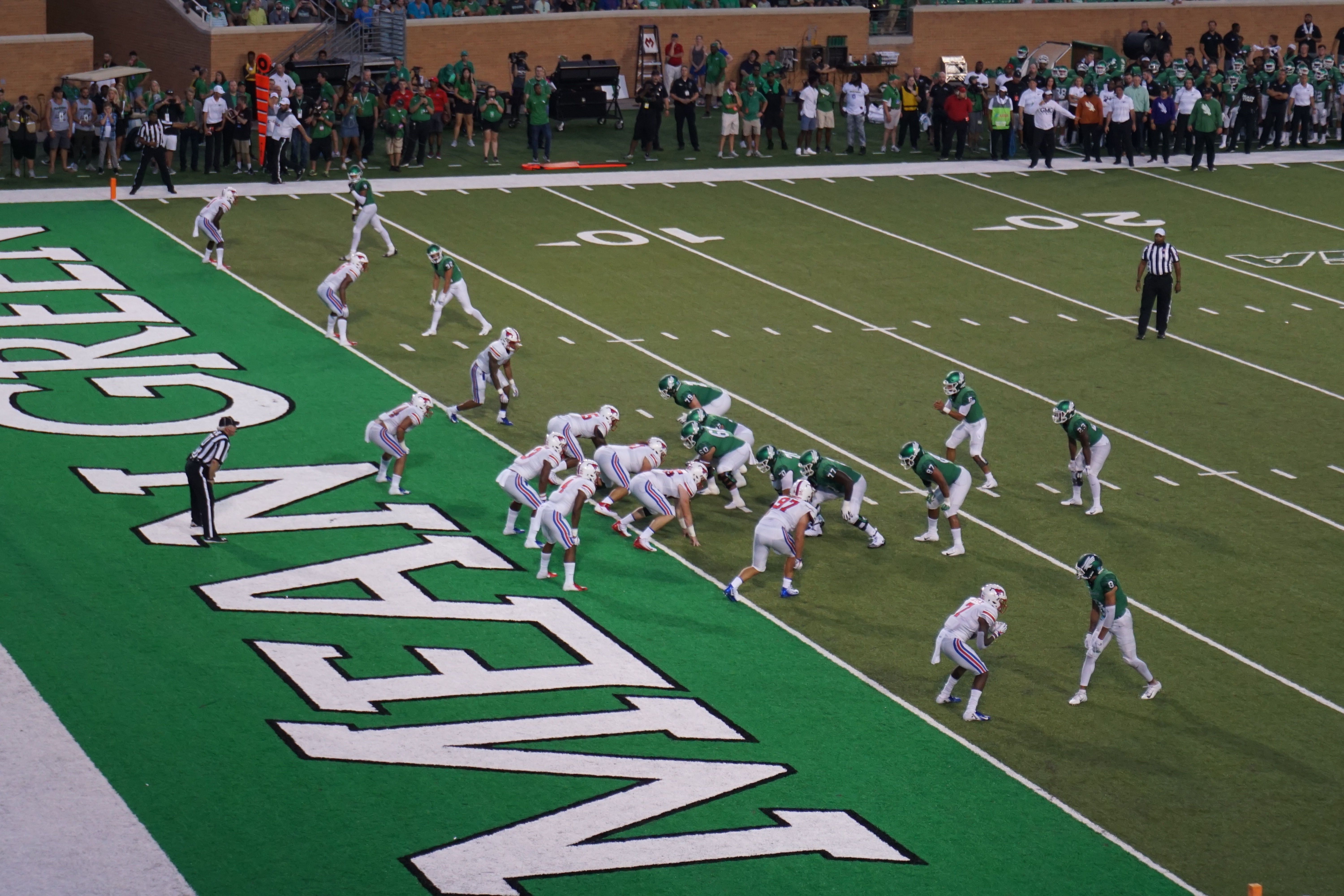 North Texas on offense during the Southern Methodist Mustangs vs. North Texas Mean Green football game at Apogee Stadium in Denton, Texas (United States). North Texas won 46–23.